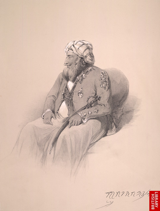 Maharaja Gulab Singh of Jammu and Kashmir, 19th century.